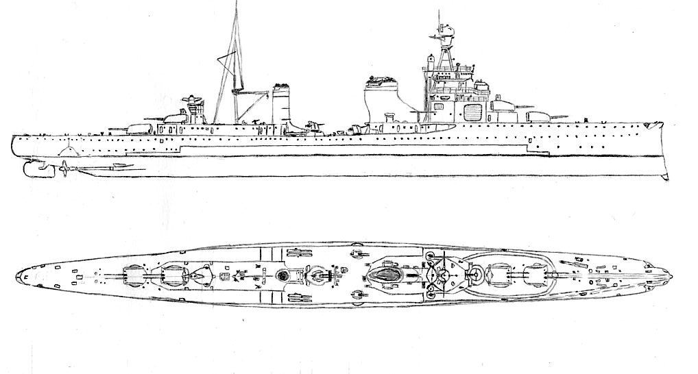 Di Giussano class cruiser. Scanned drawing.